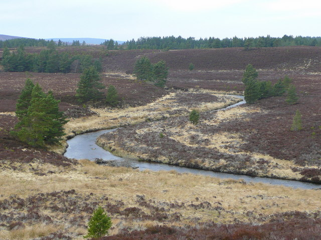 Bends in the burn A section of Dorback Burn viewed from the A940 looking west.